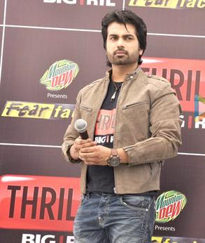 Arhaan Behl at the launch of Big RTL Thrill channel